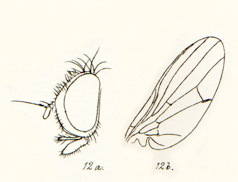 Detail of illustration from Insecta Britannica Diptera [1].